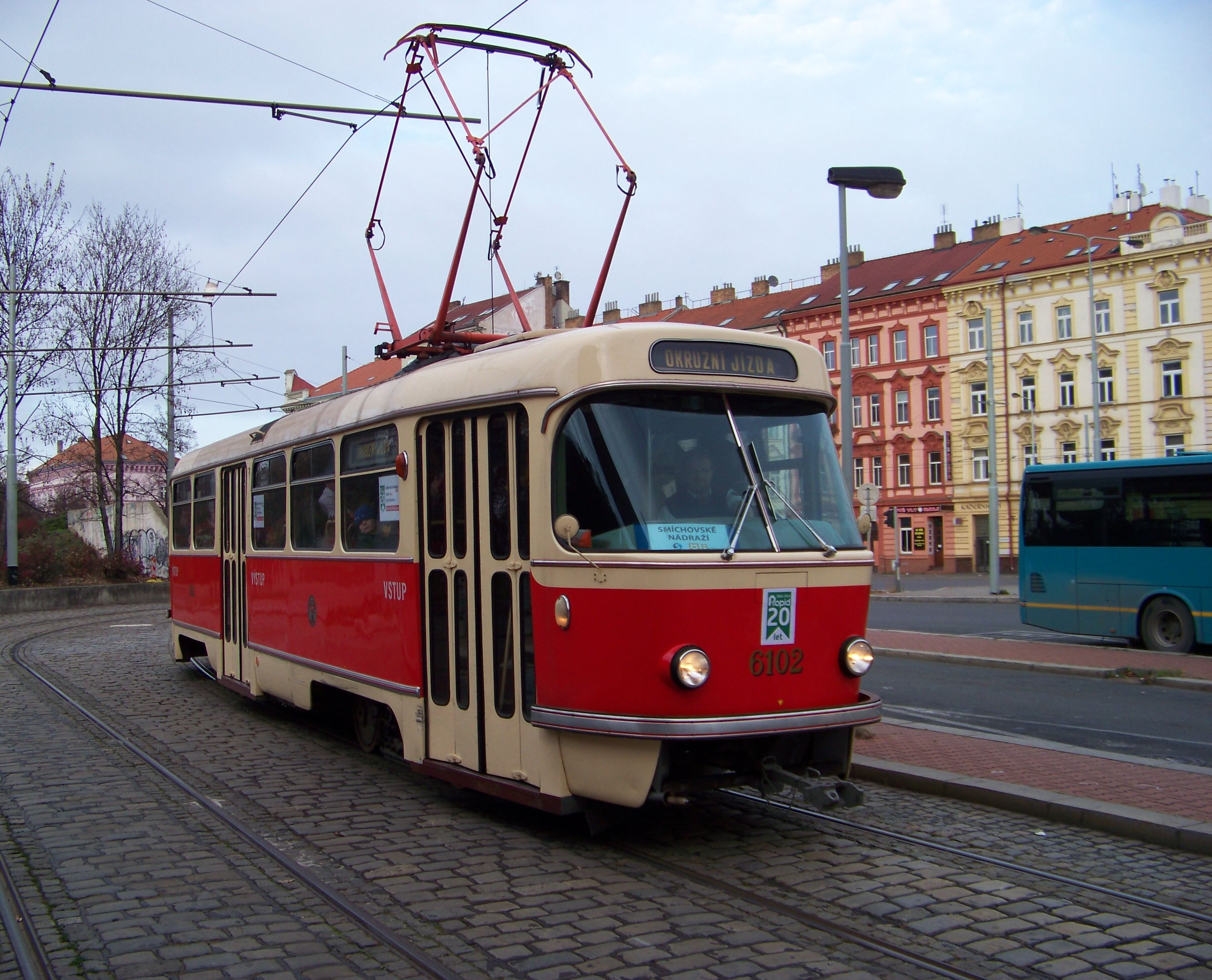 Prague-Smíchov, Czech Republic. Smíchovské nádraží, trams of a nostalgic line. - Google Maps - Google Earth